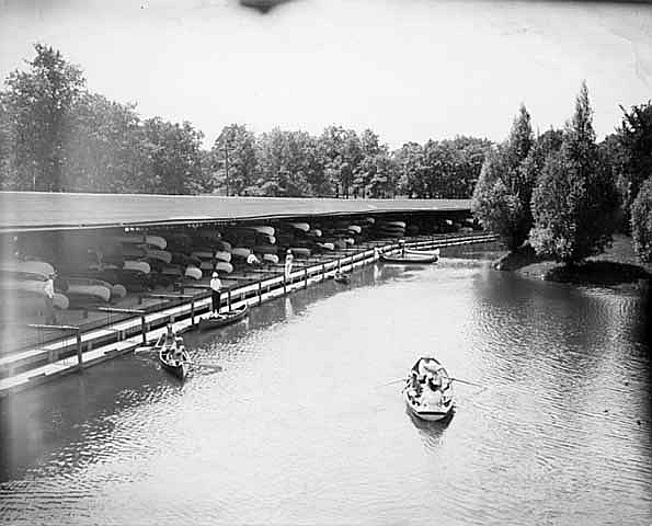 Canoes at Phalen Lake, St. Paul, Minnesota, 1905.